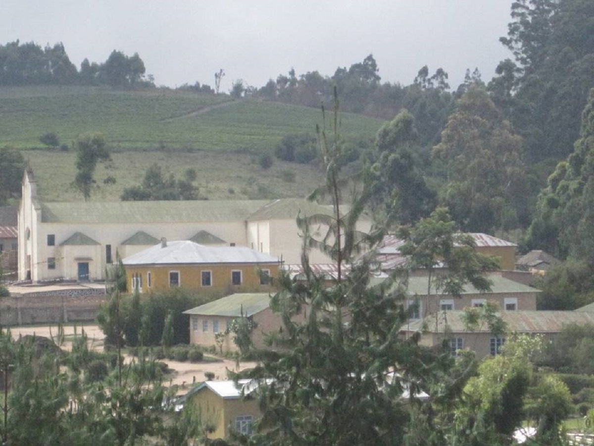 This building is the Ikwega Catholic Mission located at Southern Highlands of Tanzania in Iringa Region, Mufindi District, Mninga ward, Ikwega Village in Kisembo street.